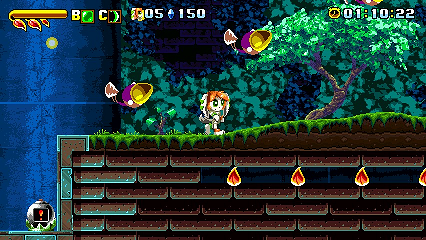 Milla trots through a post-game time attack level in Freedom Planet.